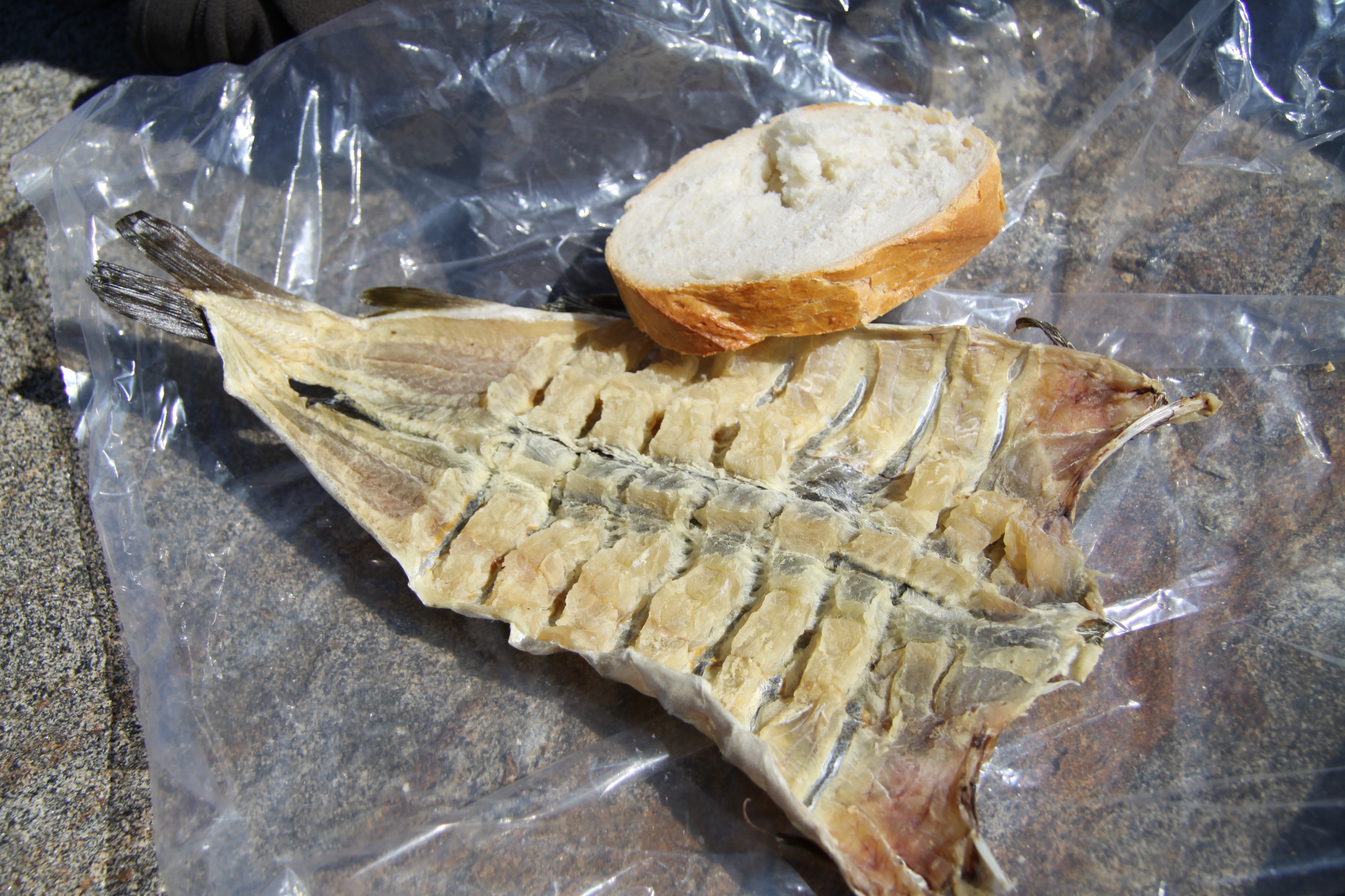 Dried fish in Sisimiut, Greenland